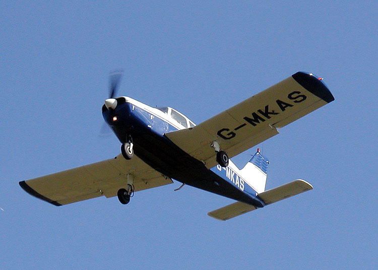 The low aspect ratio wing of a Piper PA-28 Cherokee (G-MKAS) at Bristol Airport, England. Photographed by Adrian Pingstone in September 2003 and released to the public domain.